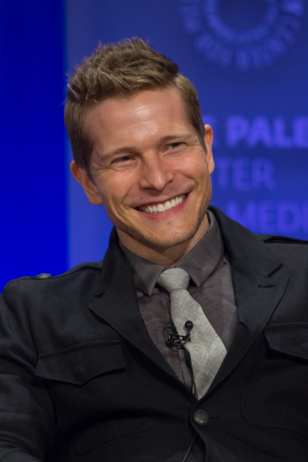 Actor Matt Czuchry at the PaleyFest 2015 Panel for The Good Wife